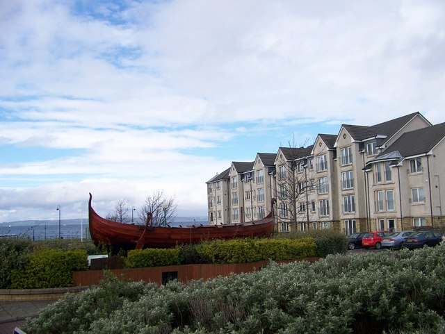 Viking longboat in front of the Vikingar! centre